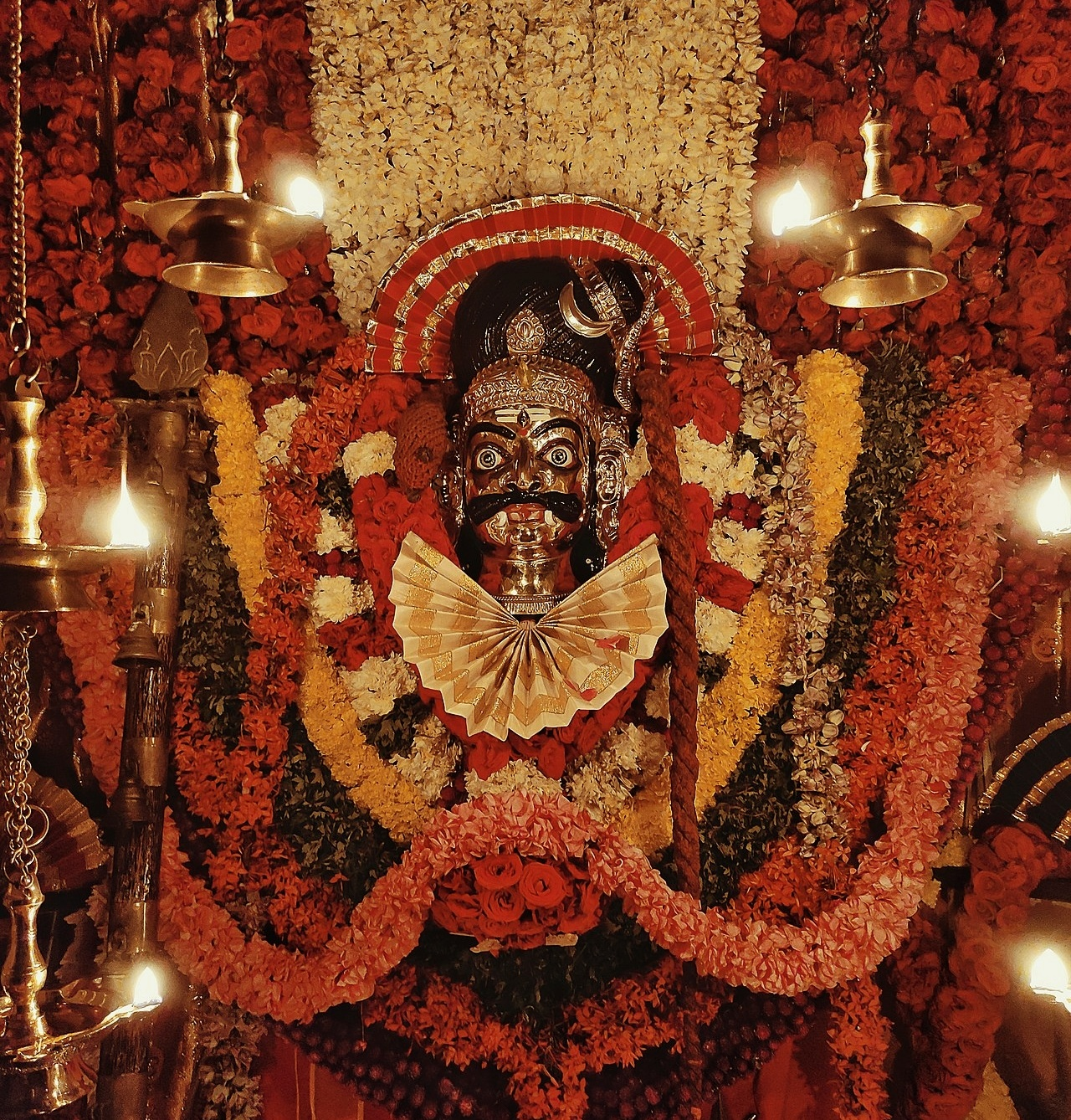 Sree Shiva sudalai mdan sammy